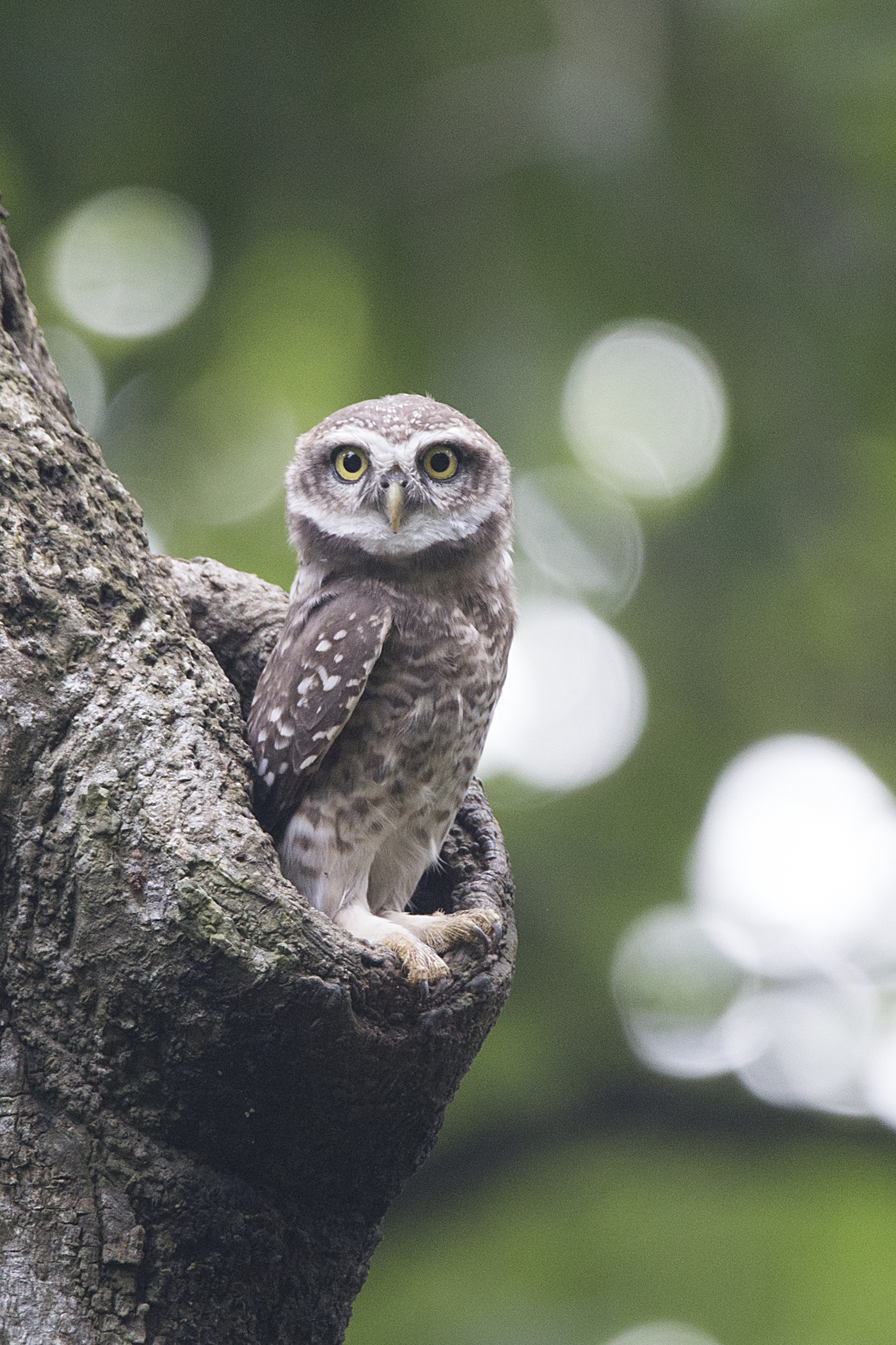 A Spotted Owlet Athene brama is looking at the camera. The Spotted Owlet is a small owl which breeds in tropical Asia from mainland India to southeast Asia. A common resident of open habitats including farmland and human habitation, it has adapted to living in cities. They roost in small groups in the hollows of trees or in cavities in rocks or buildings. It nests in a hole in a tree or building, laying 3–5 eggs. They are often found near human habitation. The species shows great variation including clinal variation in size and forms a superspecies with the very similar Little Owl.